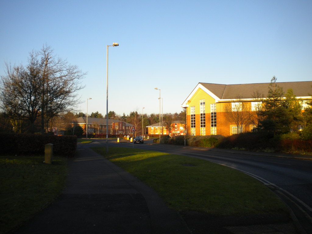 Broadlands, Fordhouses